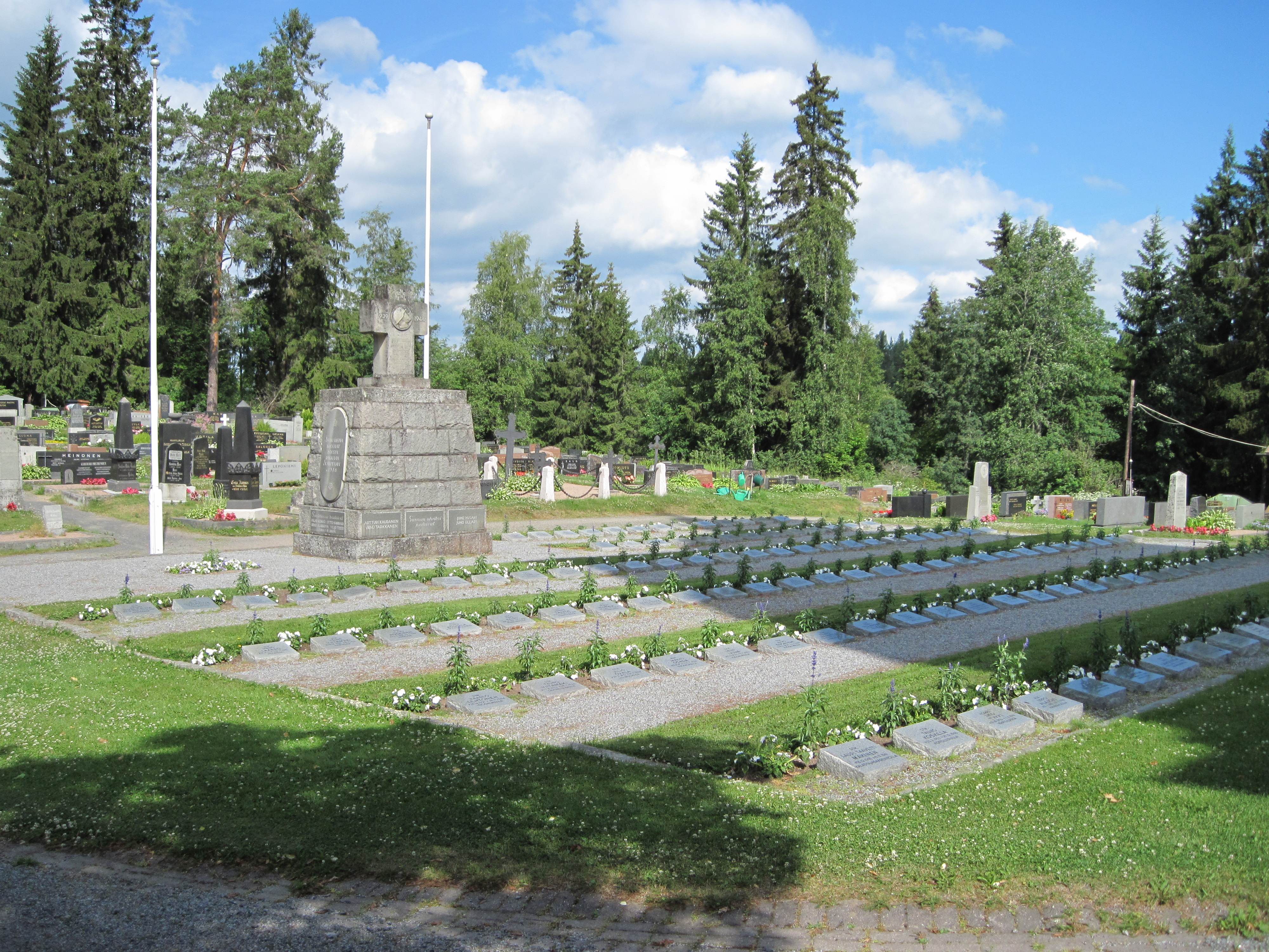 Military cemetary at church in Mouhijärvi, Finland